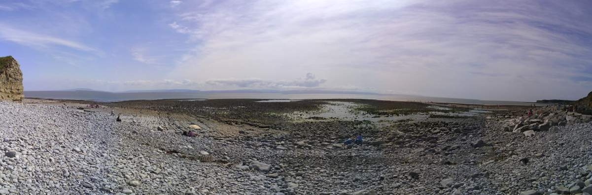 A picture of Llantwit Major beach, taken on a Sony Ericsson G502 phone and then quickly and probably very poorly imported into Hugin.